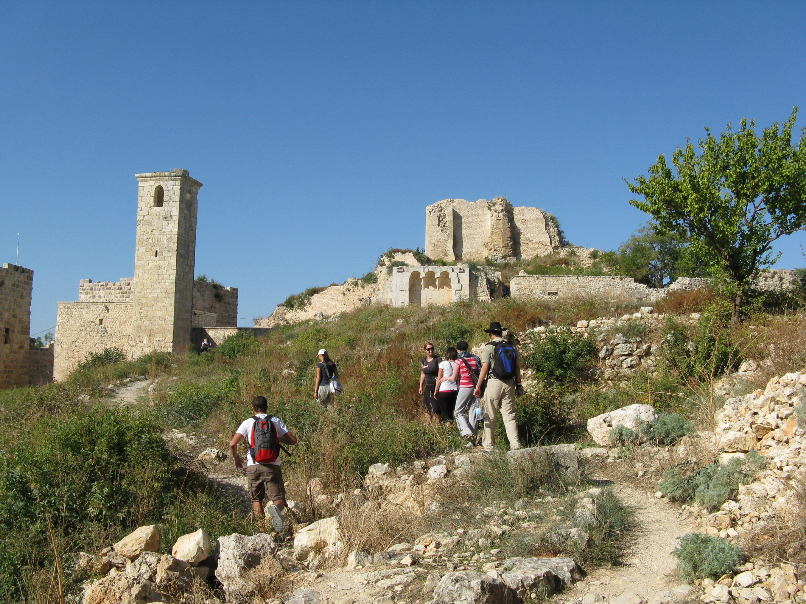 Inside Saladin's castle